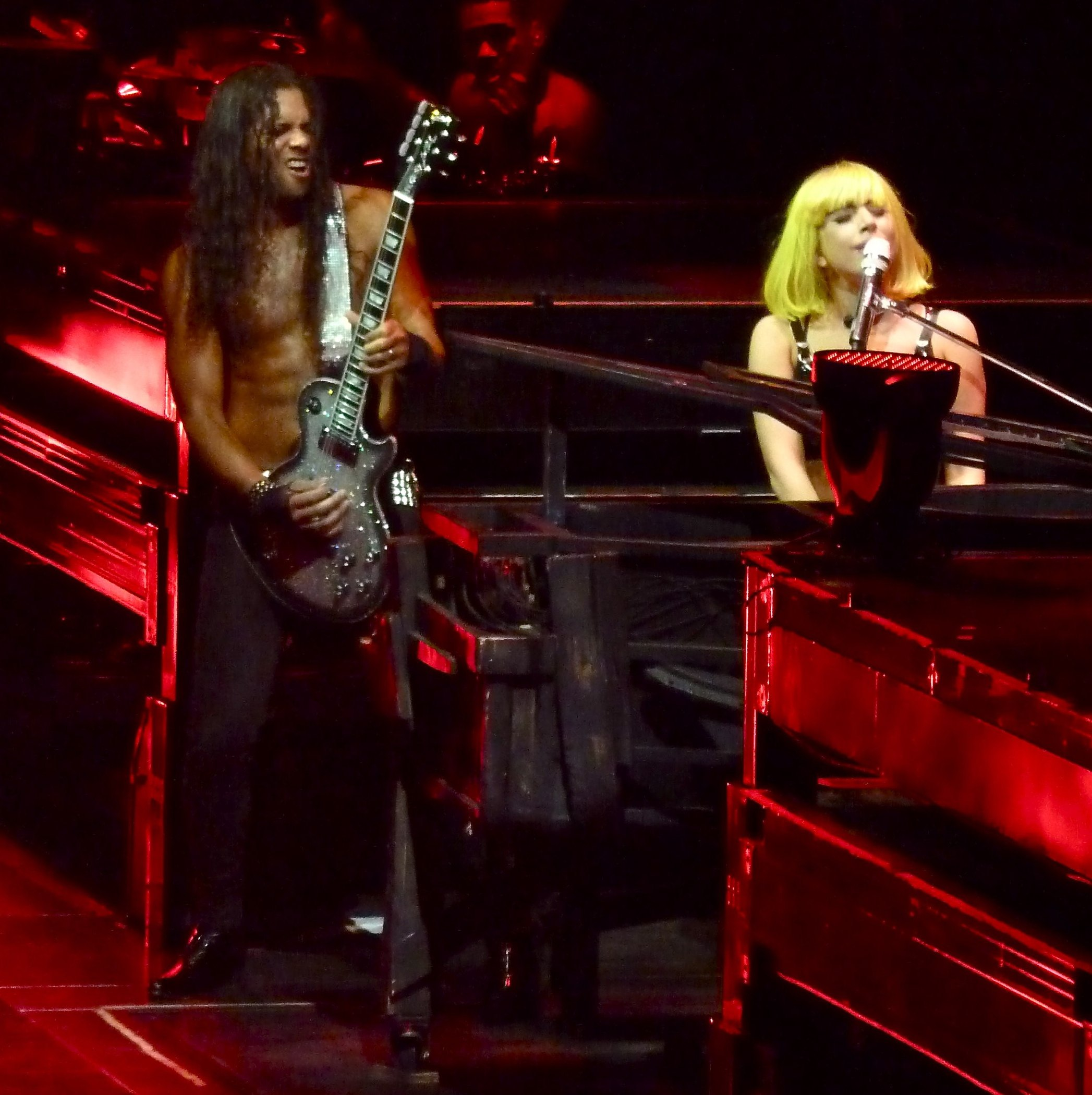 Lady Gaga performing "You and I" on The Monster Ball Tour.